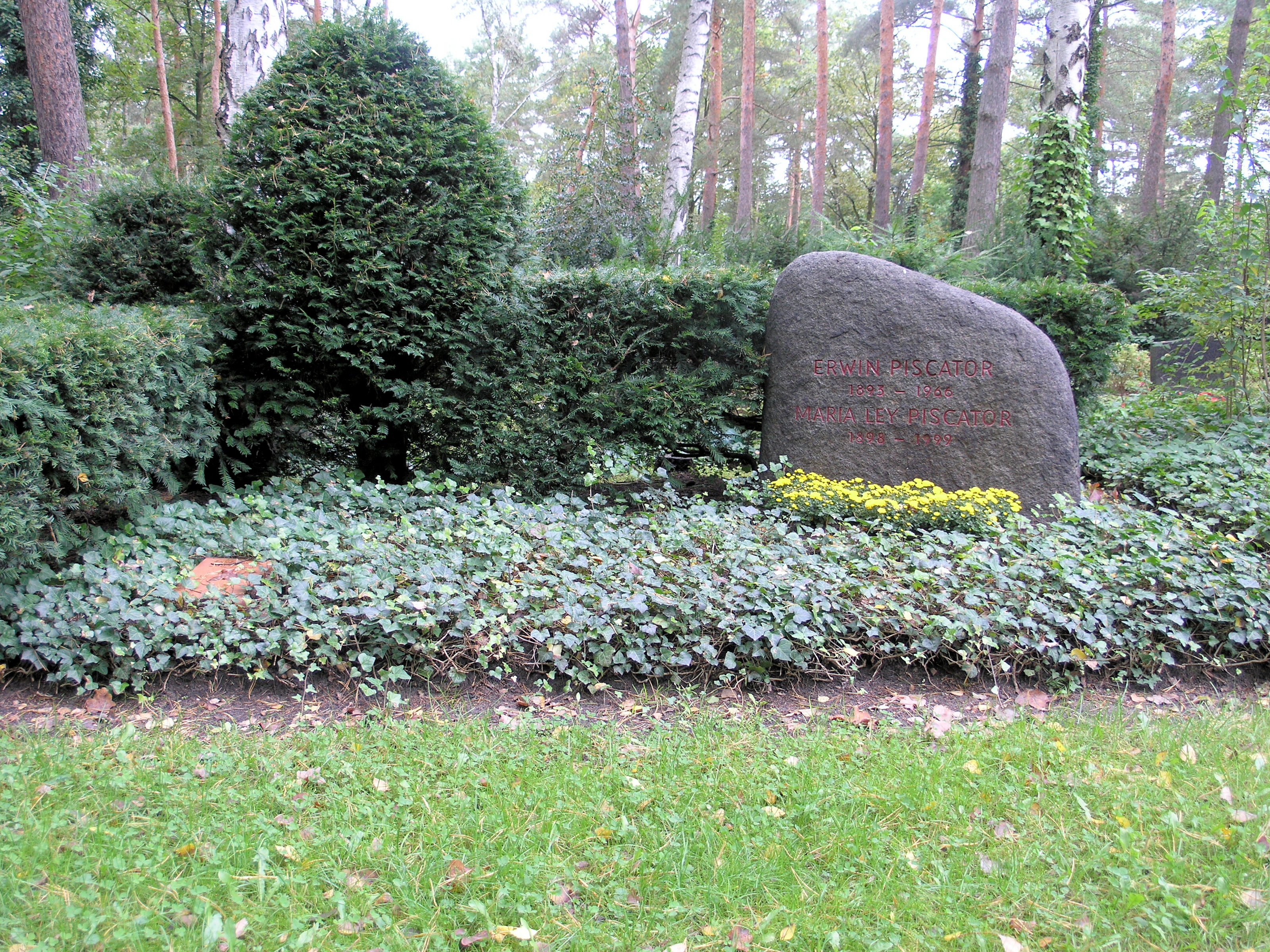 "Ehrengrab" (grave of honor), Erwin Piscator, Potsdamer Chaussee 75, Berlin-Nikolassee, Germany